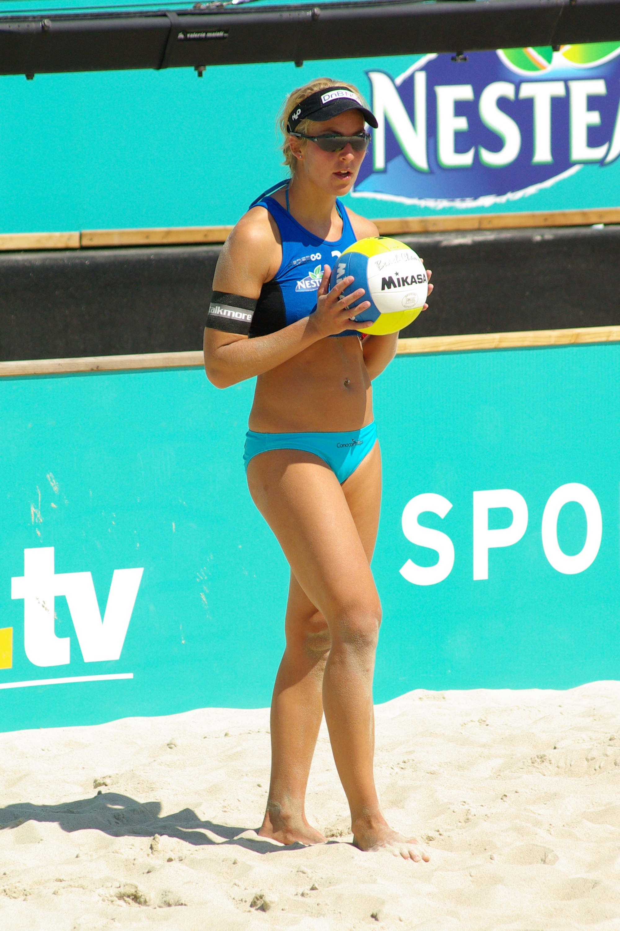 Norwegian Beach volleyball player Ingrid Toerlen at the European Championship Tour 2008 Austrian Masters in St. Pölten.